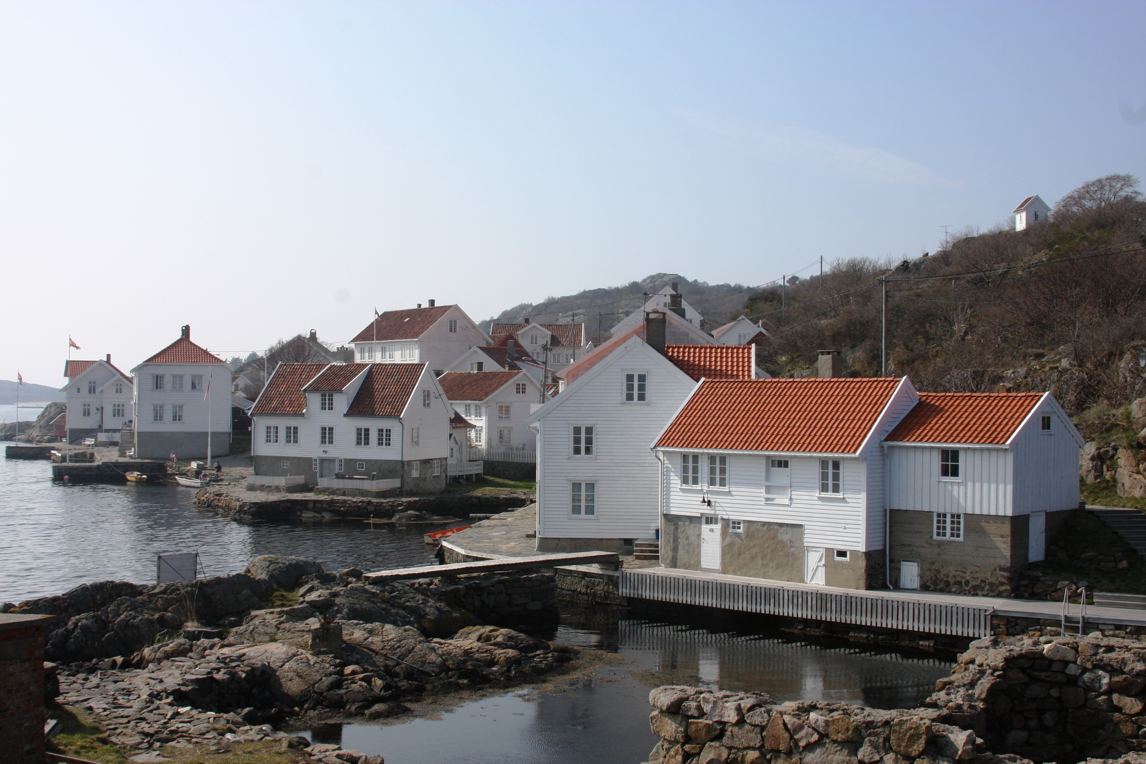 Loshavn, in Farsund municpality, Vest-Agder (Norway)